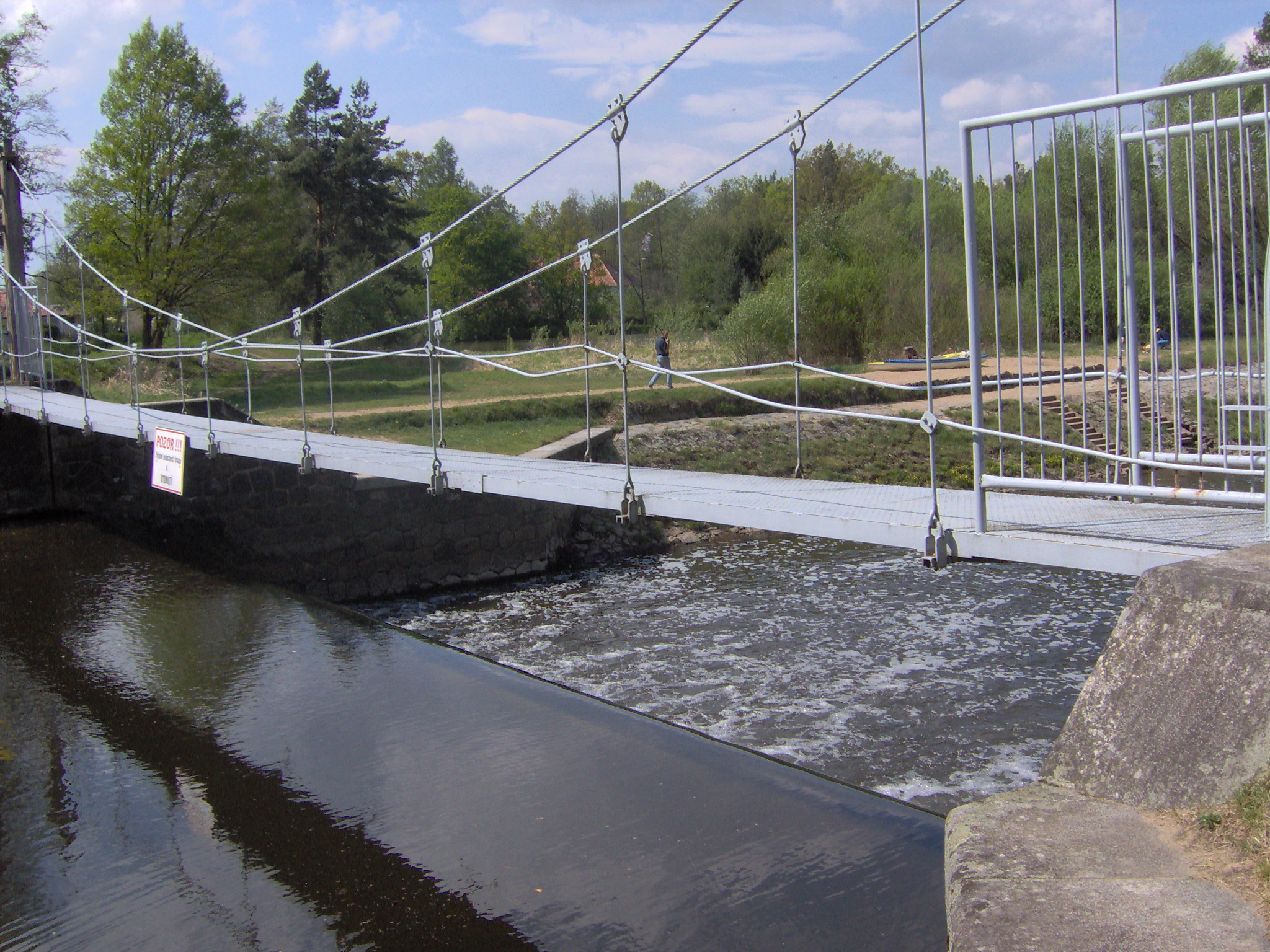 Weir Pilař, river Lužnice, Czech republic